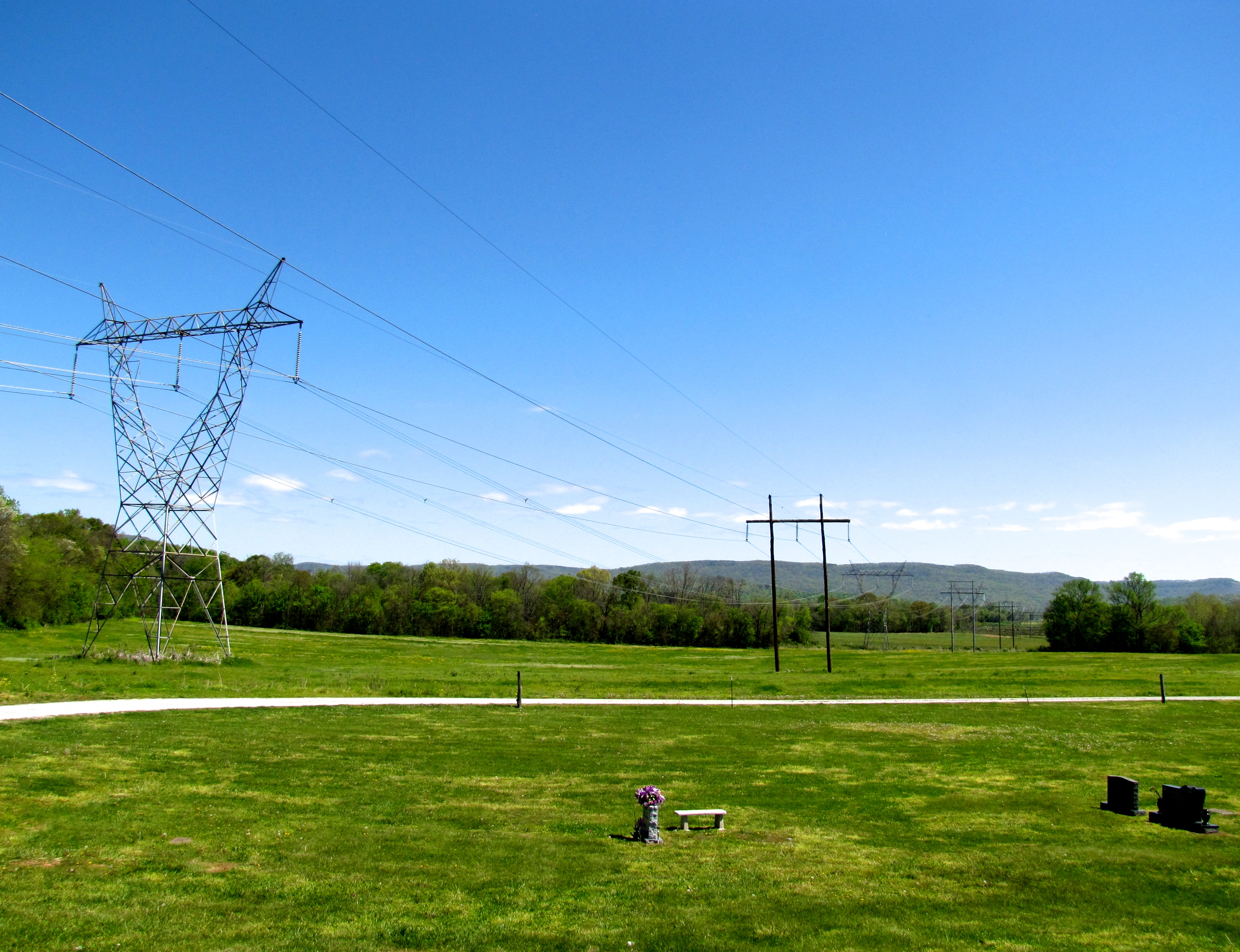 Fields and power lines near Warren Cemetery in Pelham, Tennessee, United States. The Cumberland Plateau spans the horizon.